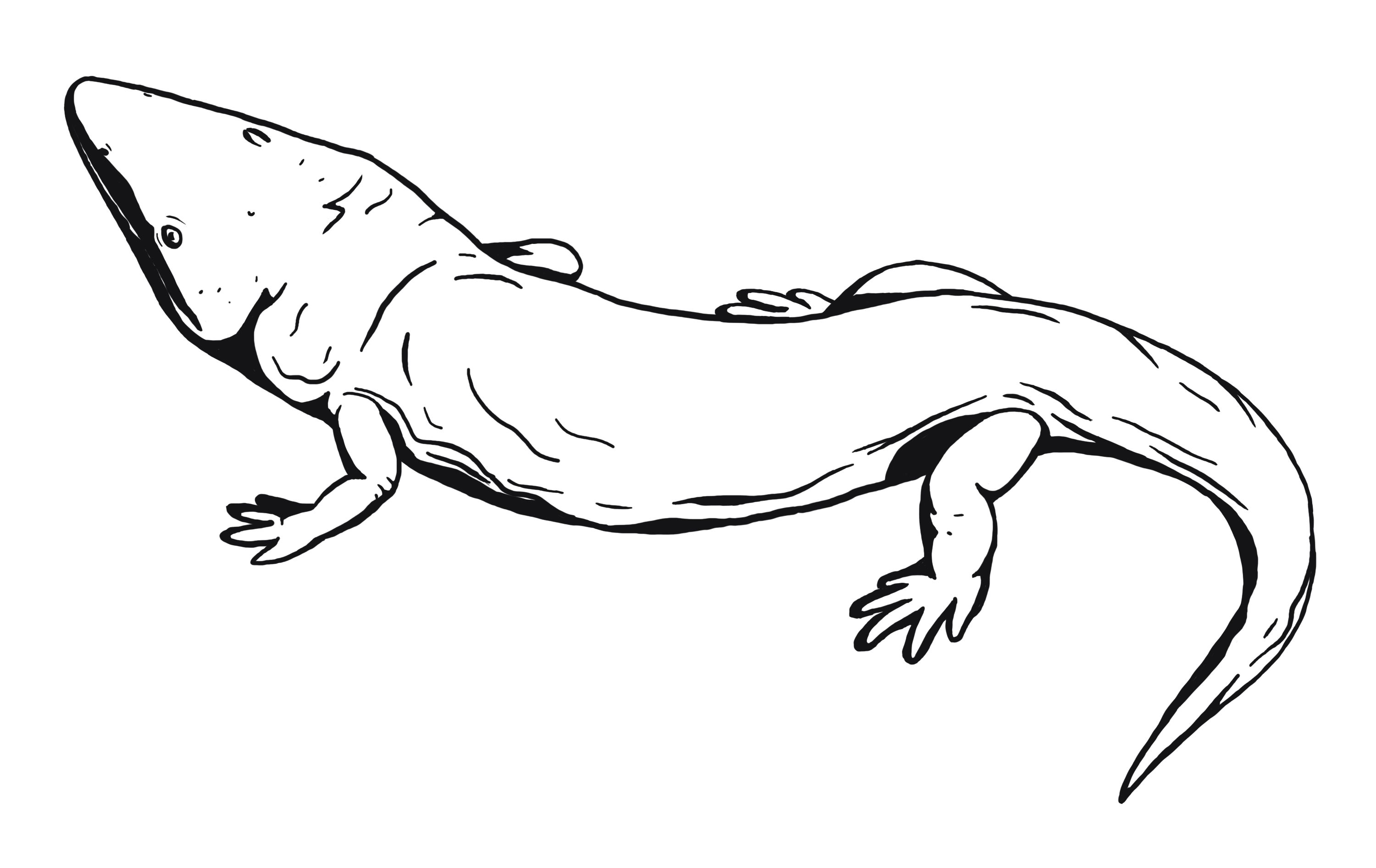 Life restoration of Rhytidosteus capensis. Based on Figure 1I of "Phylogenetic reappraisal of Rhytidosteidae (Stereospondyli: Trematosauria), temnospondyl amphibians from the Permian and Triassic" by Sérgio Dias-da-Silva and Claudia Marsicano (Journal of Systematic Paleontology 9(2): 305-325).